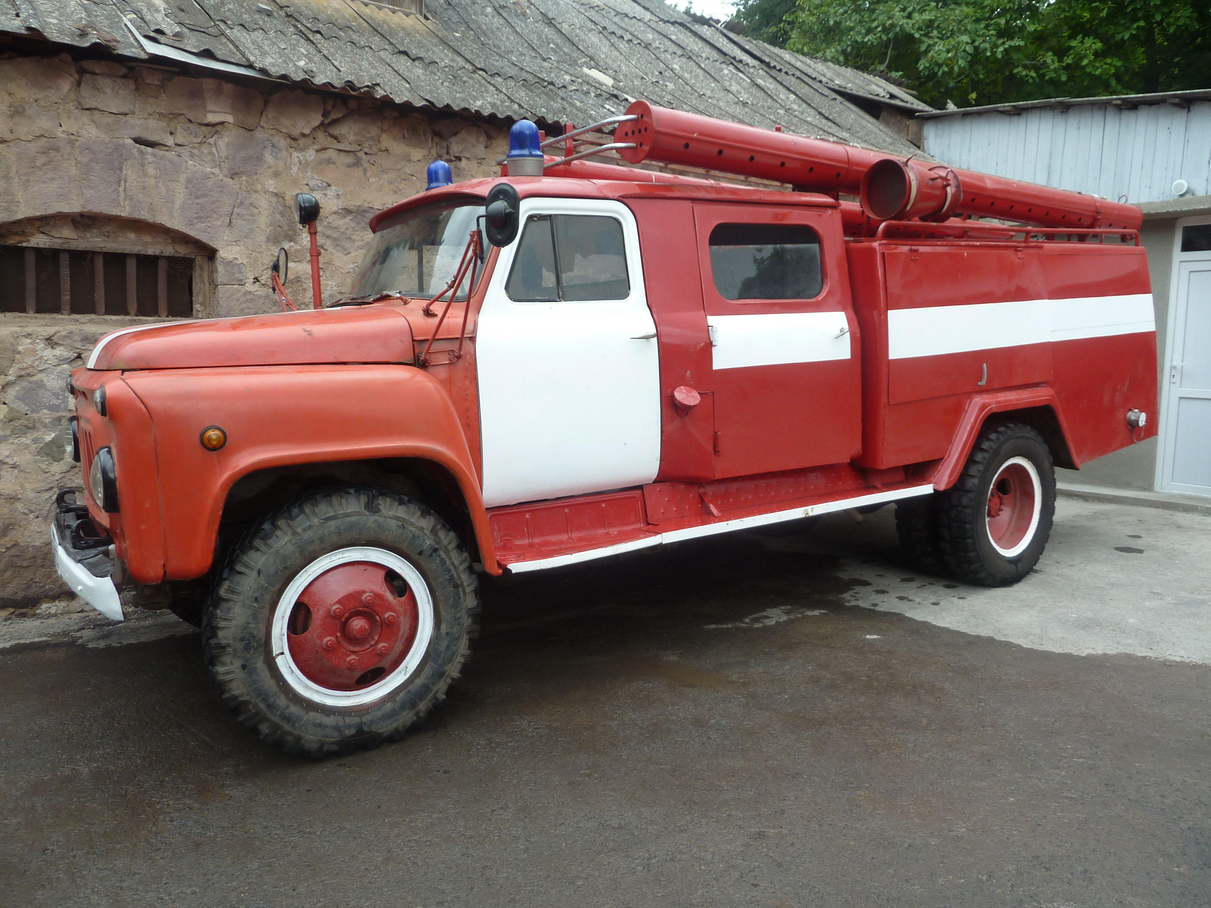 Fire engine AC-30(53A)-106A near the Surb Astvatsatsin church in Movses village in Tavush province of Armenia.